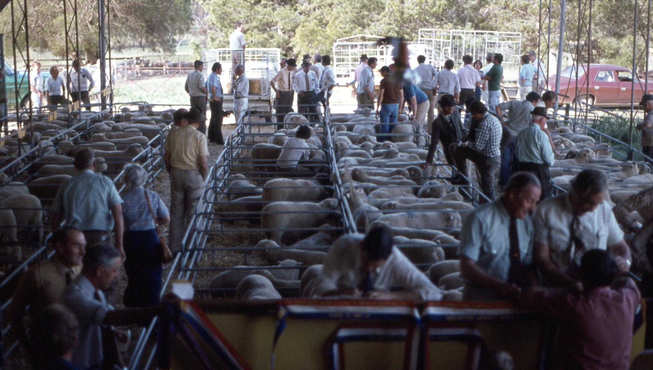 re Copland family farm "Tillyfour" Chertsey Mid-Canterbury New Zealand